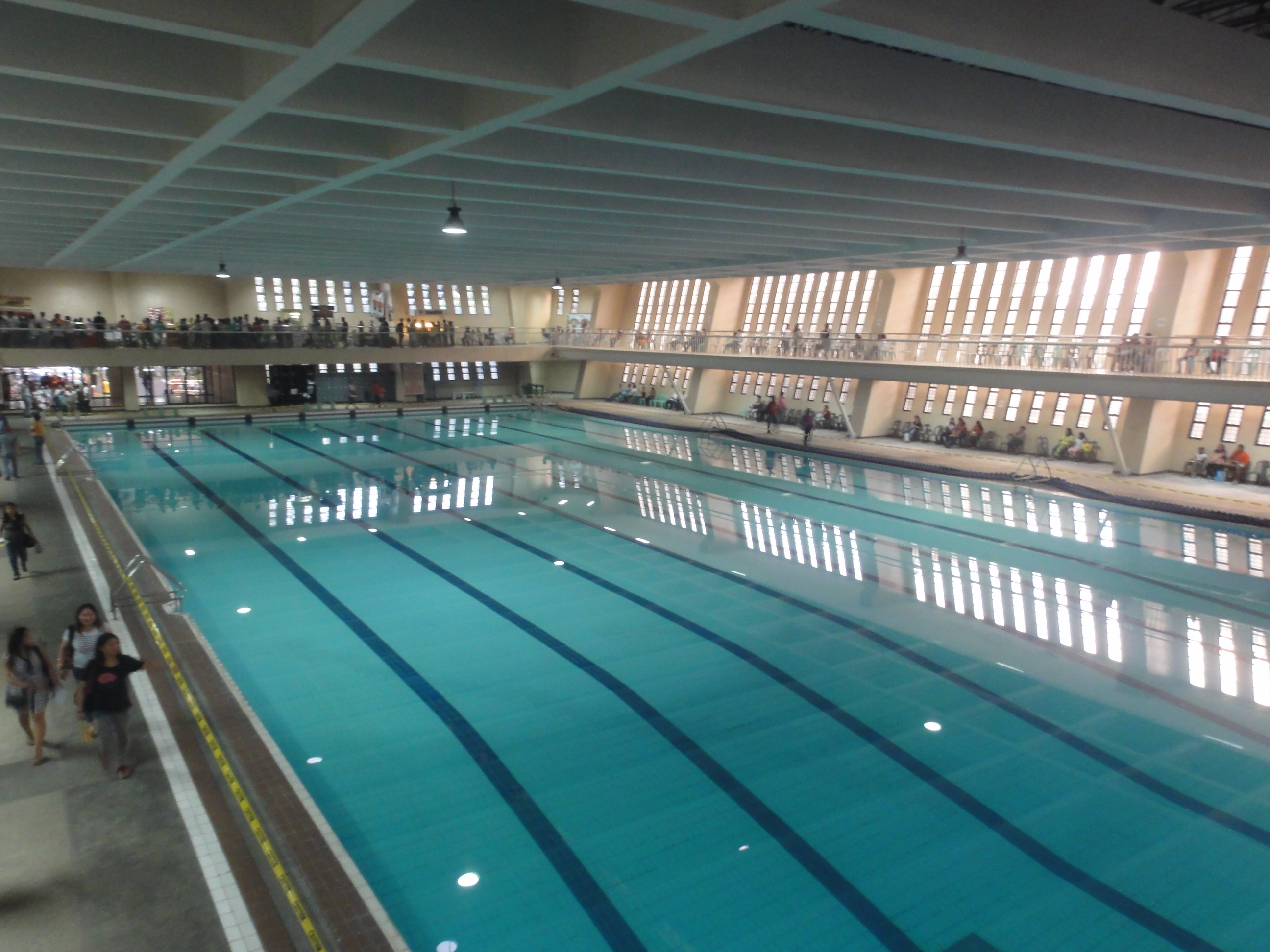 An olympic-sized swimming pool at Philippine Science HS Gym in Quezon City